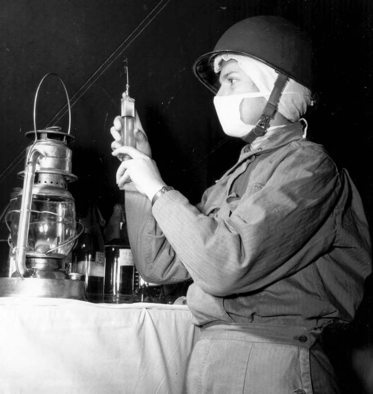 A U.S. Army nurse, wearing a helmet and fatigue uniform, prepares an intravenous injection; a kerosene lamp provides illumination. Hospital personnel worked under conditions similar to those they might encounter upon their arrival on the continent after the Normandy invasion. Army nurses gave widely varying types of skilled service, some of them in field hospitals and others in the general hospitals farther behind the lines. World War II was the first war in which nurses received full military benefits and real instead of relative officer rank. There were more than 17,000 Army nurses in the European Theater of Operations in May 1945.